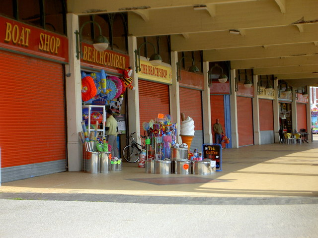 Barry Island, Barry,Vale of Glamorgan